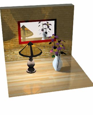 Model created using SketchUp. Rendering created with RPS Ray Trace